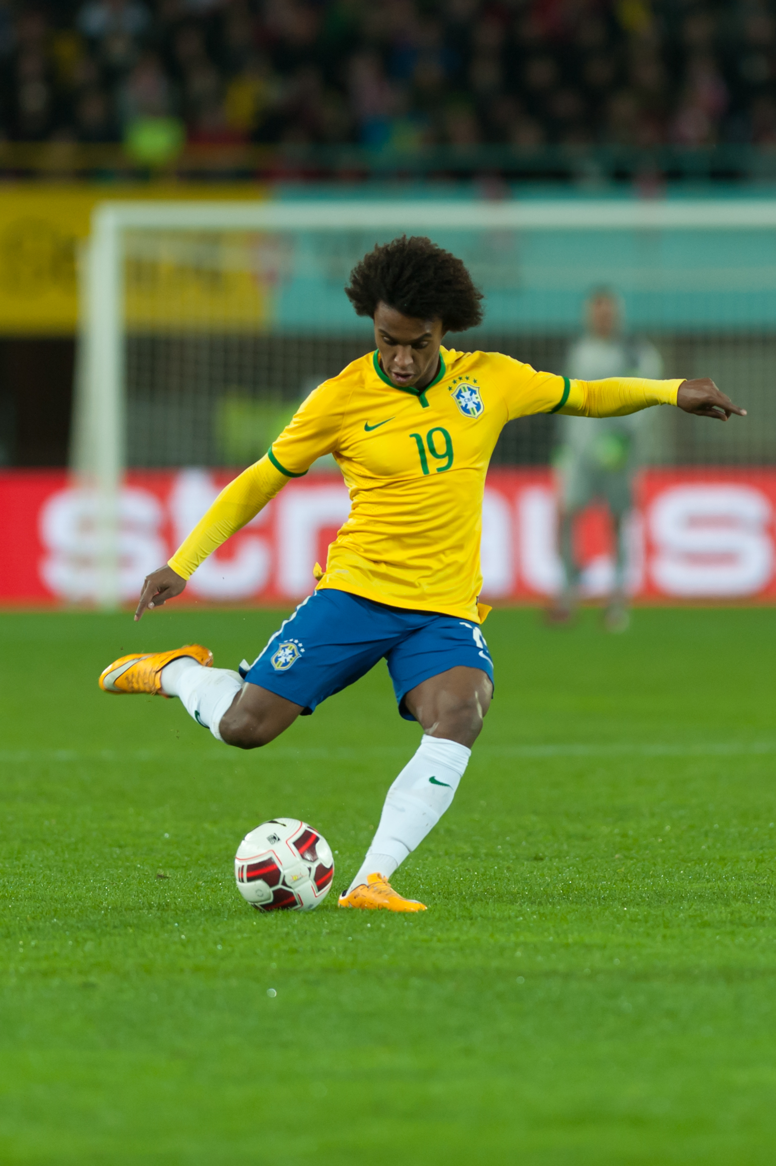 International Friendly Austria - Brazil November 18, 2014: Willian